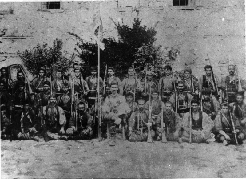 Cheta of Apostol Petkov Terziev